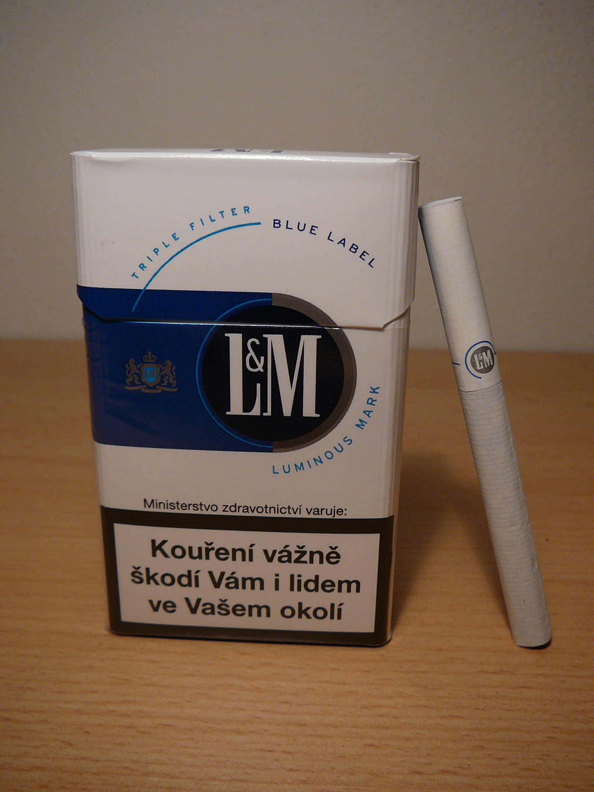 L&M Blue Label (light)